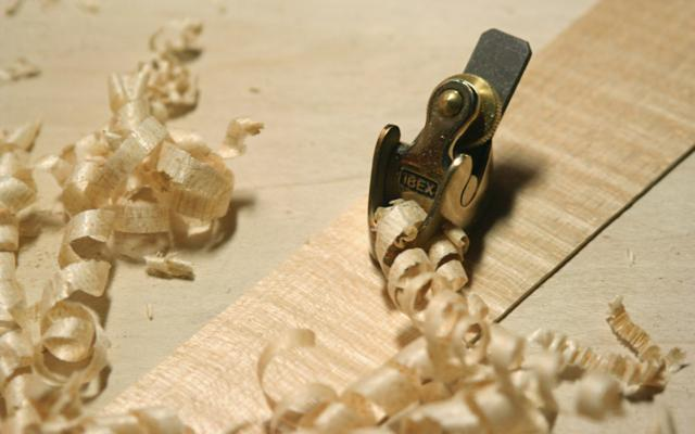 Planing the ribs.